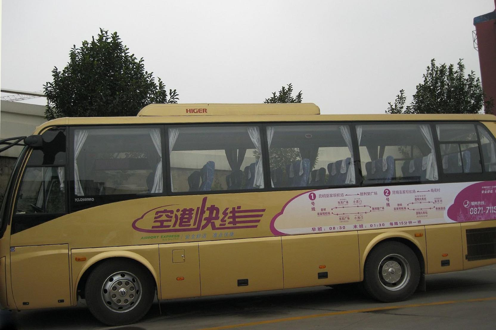 Airport bus of New Kunming Airport（in Operation）